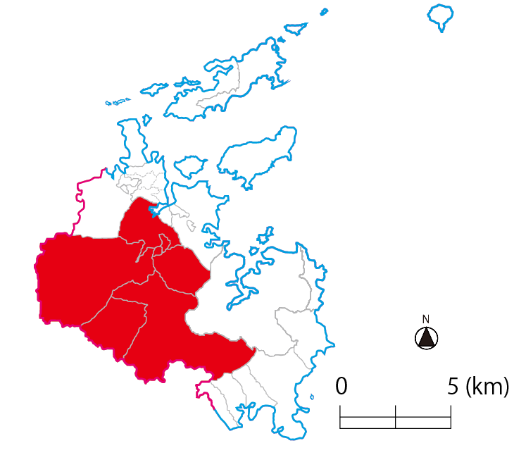 This map indicates the Kamo junior high school and elementary school district.